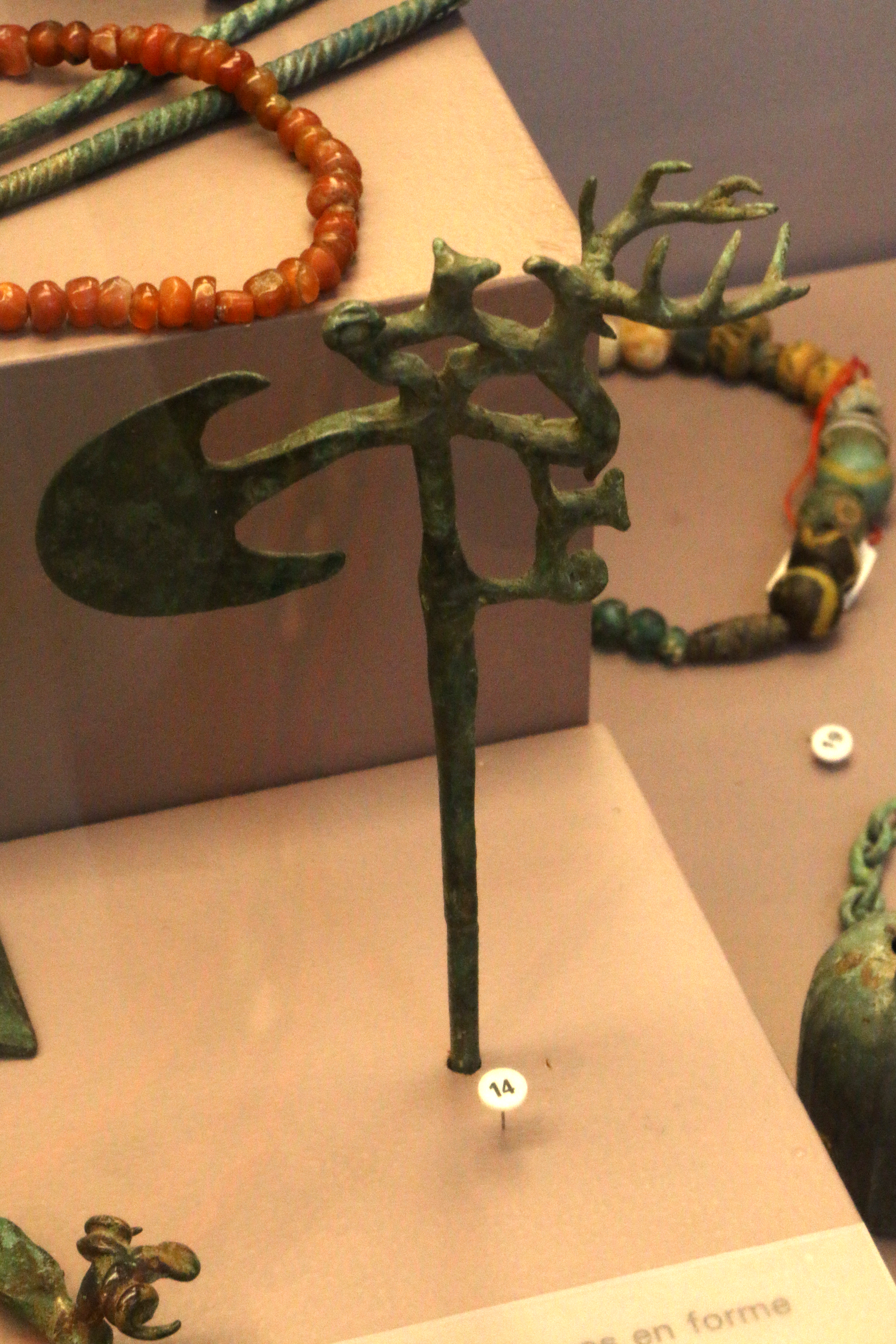 From the National Archaeological Museum of Saint-Germain-en-Laye near Paris France - Pin, its head show a deer hunting - Koban graves - Koban culture